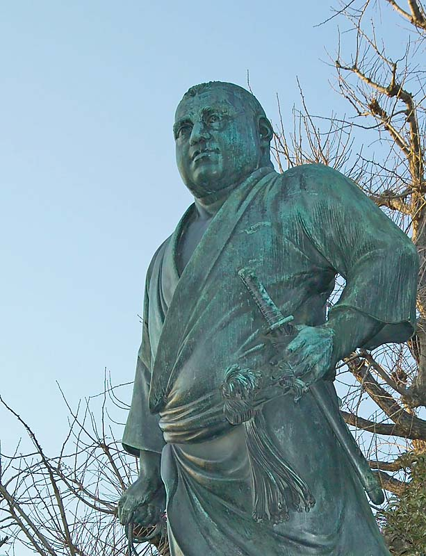 Saigo Takamori Statue Ueno Park Taito-ku Tokyo Japan. This statue of Japanese samurai Saigo Takamori stands in Ueno Park. I took the photo.